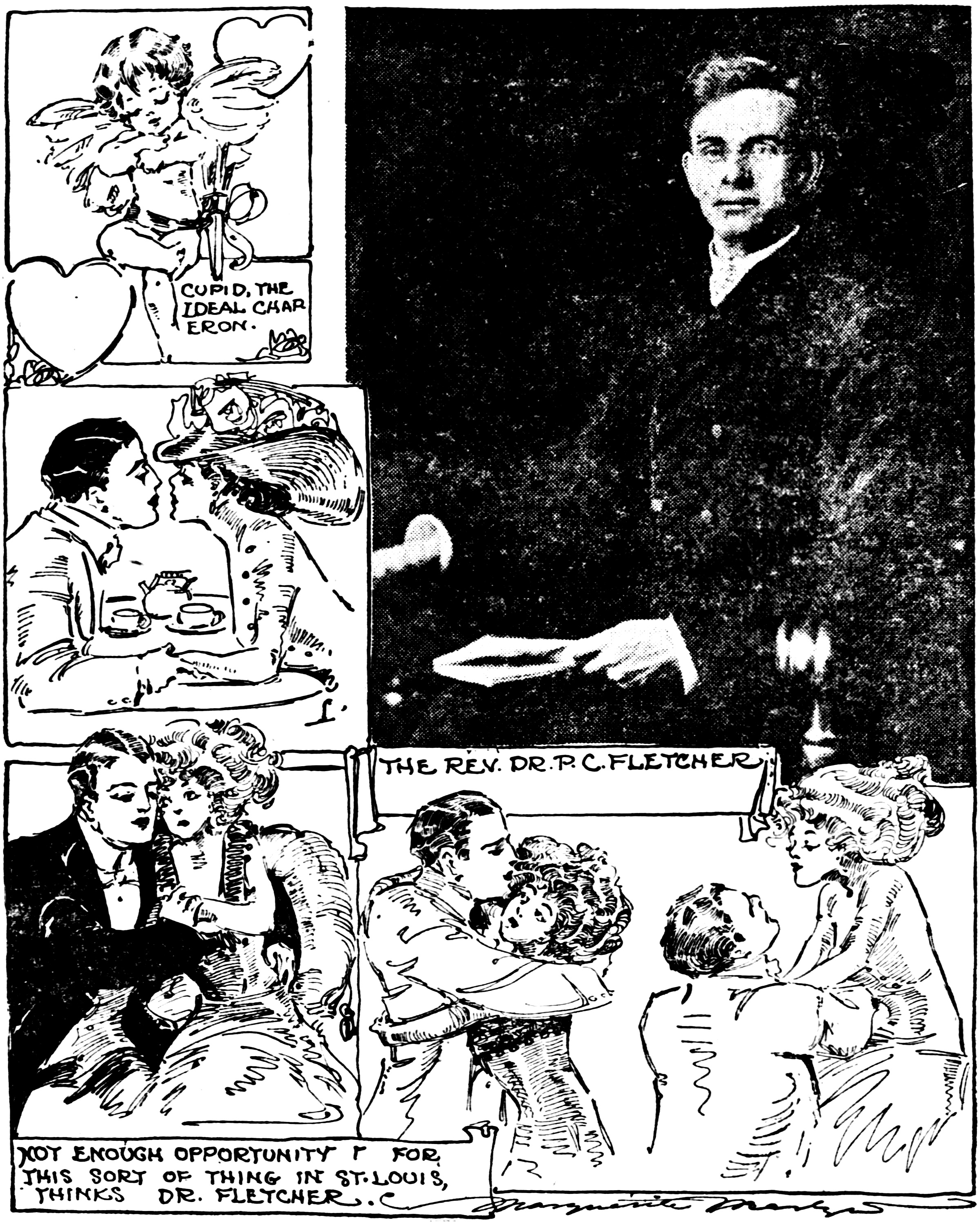 Newspaper layout including photo of the Reverend Philip Cone Fletcher and imaginative drawings by journalist Marguerite Martyn based on his ideas concerning courtship and romance, 1909. Includes a sketch of Dan Cupid.